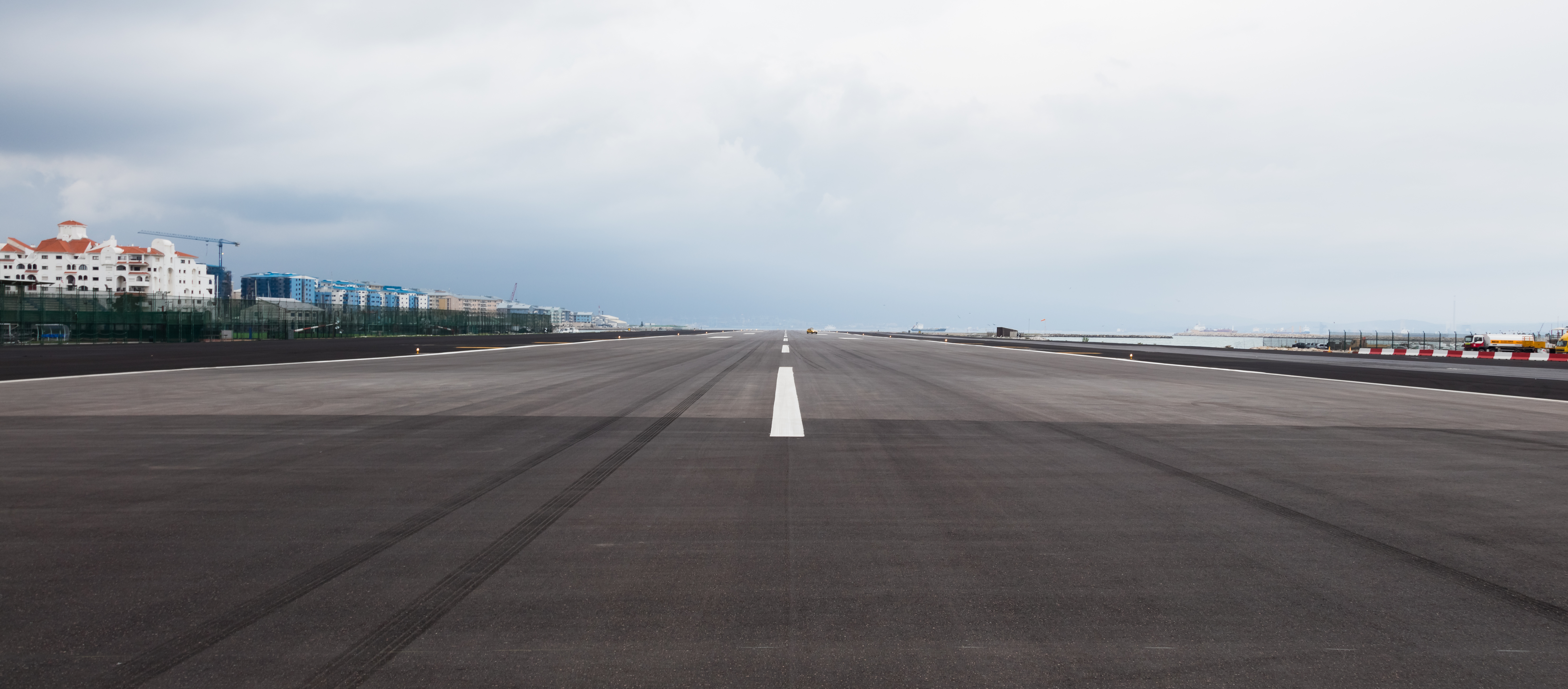 Gibraltar Airport